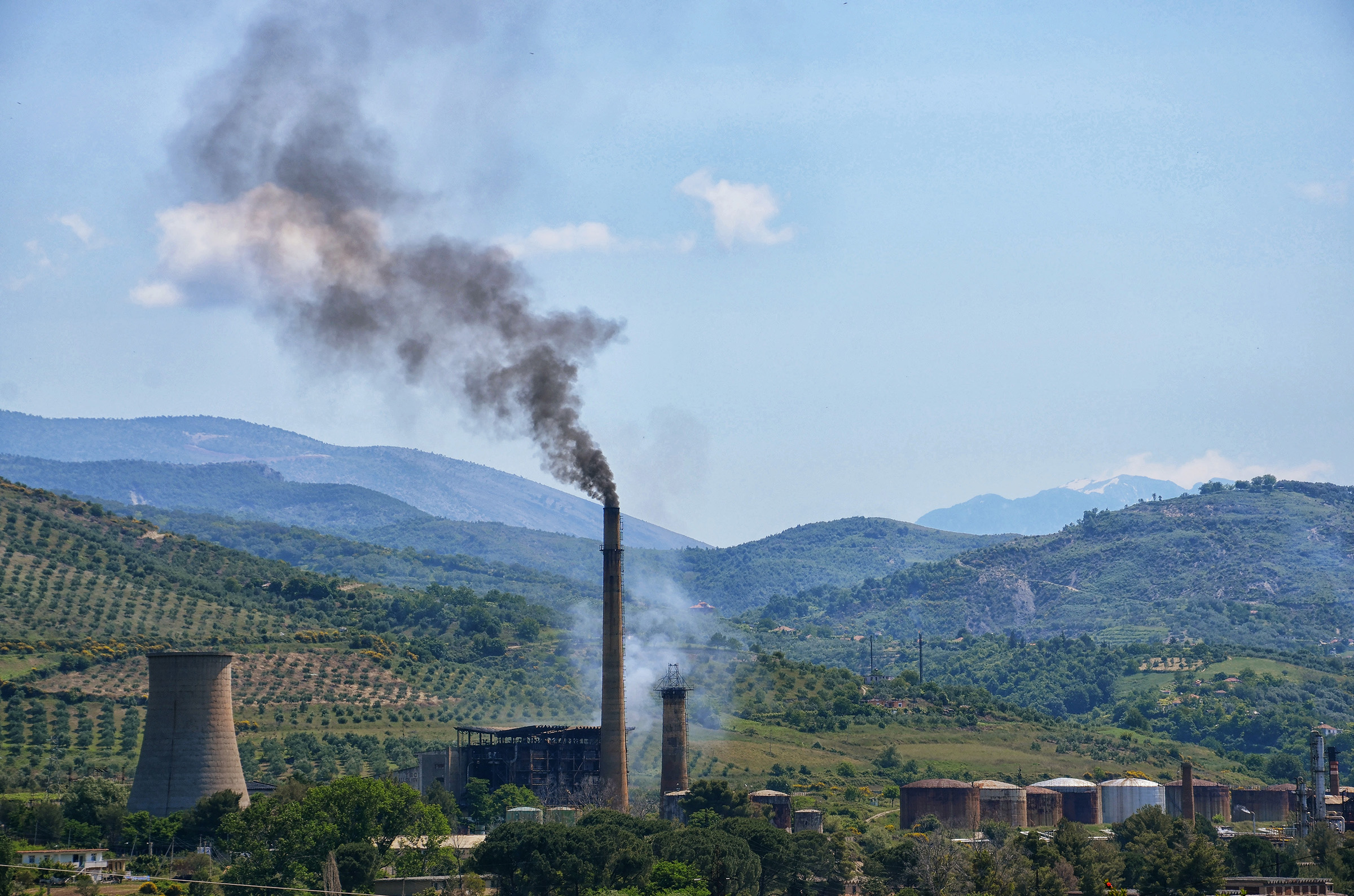 Oil refiners in Ballsh, Albania